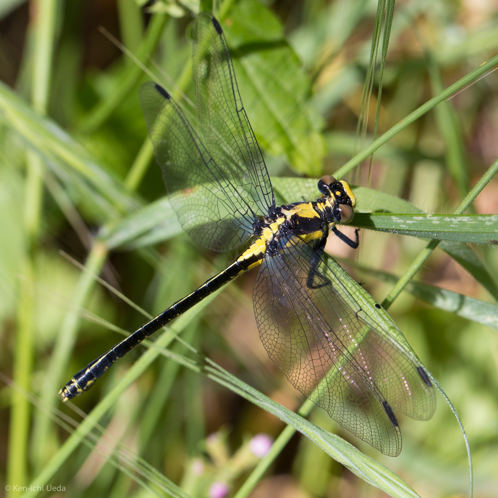 Grappletail (Octogomphus specularis), California, US